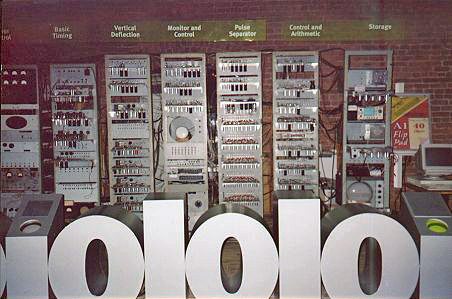 Author: Sarah Hartwell. Photographed and uploaded by self. Baby computer photographed and Museum of Science & Industry in Manchester (MSIM).